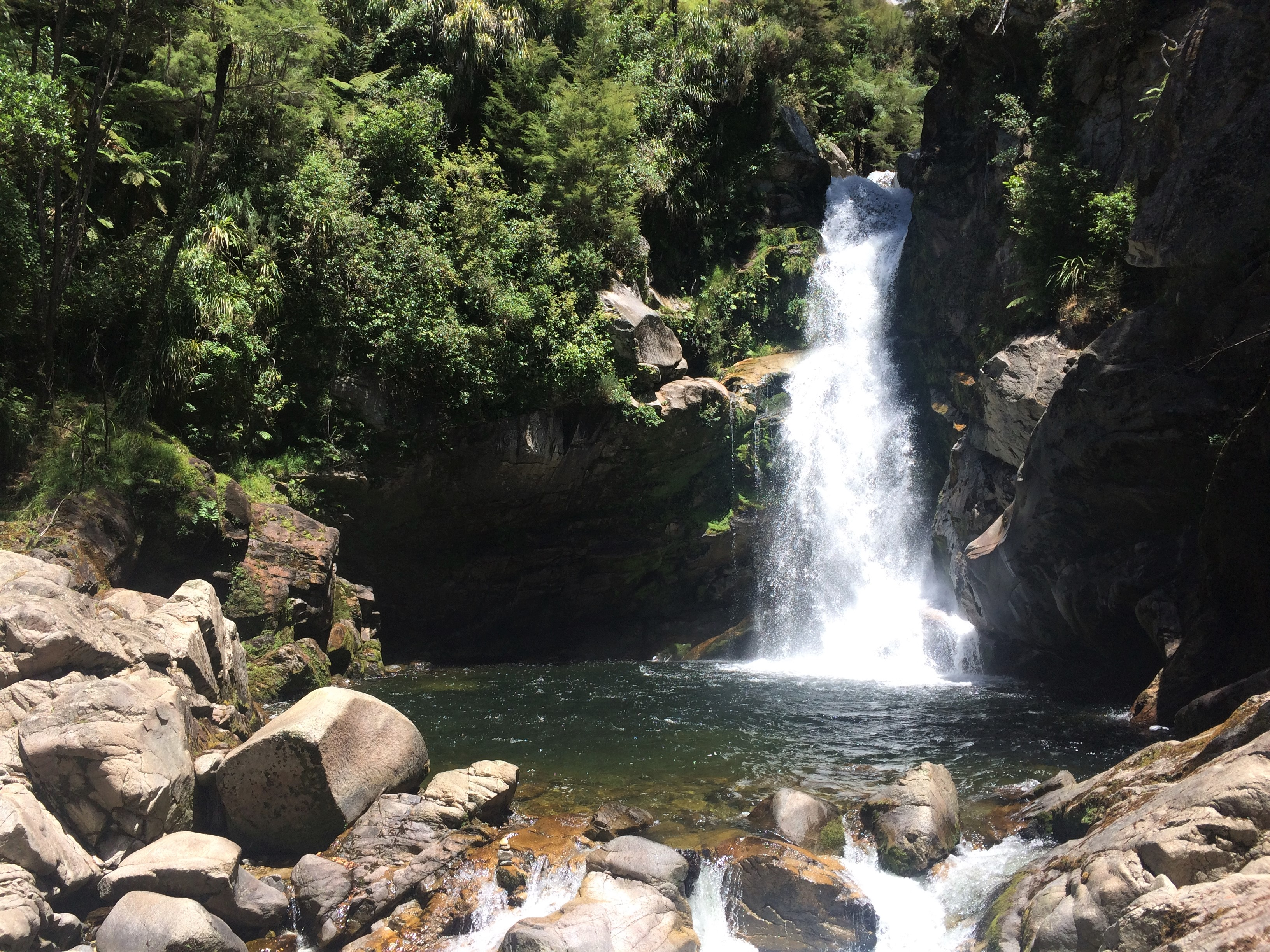 Picture of Wainui Falls, Golden Bay, New Zealand (taken by me). Coords: N: -40.84924 E: 172.92765